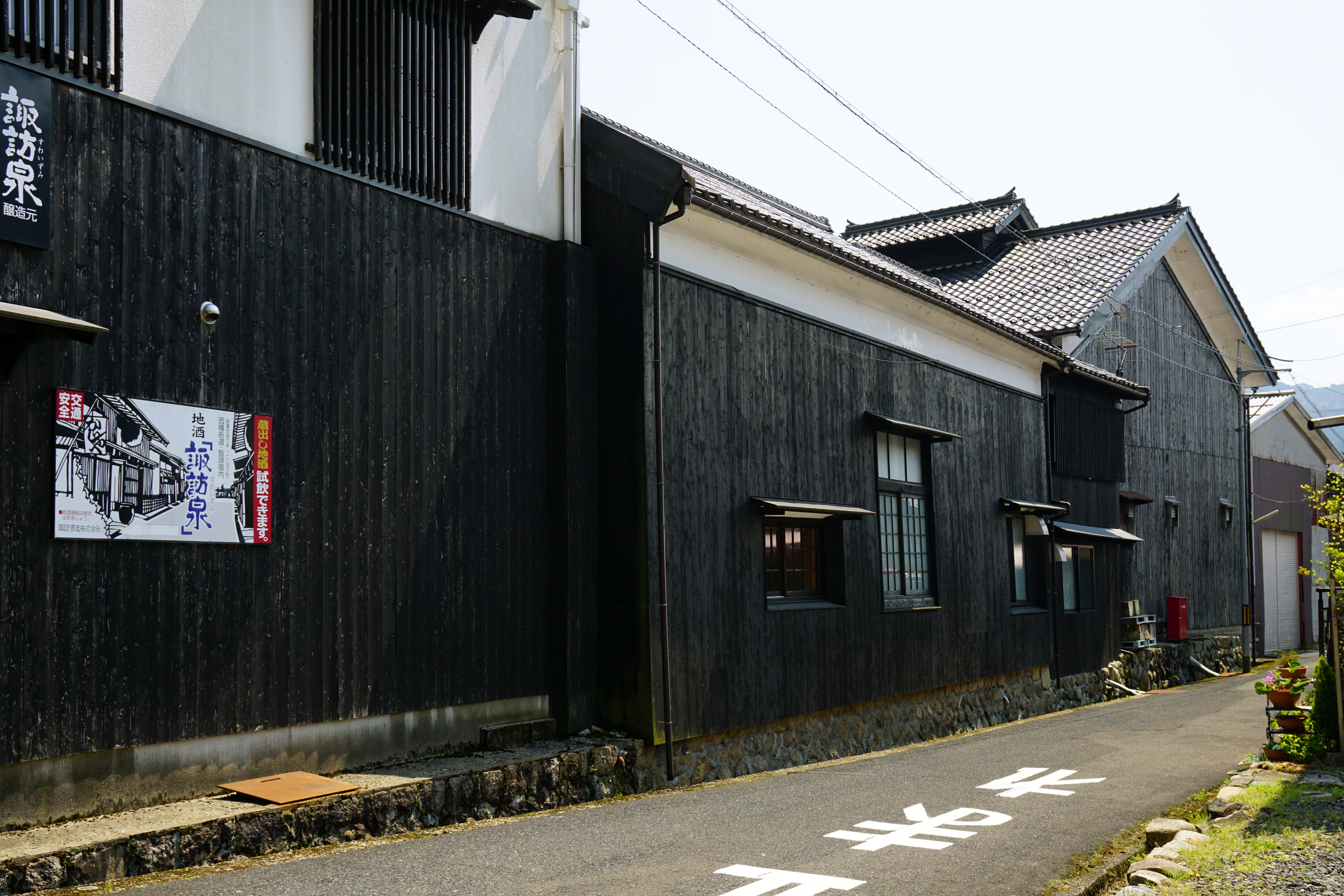 Suwa Shuzou Kajiya shop in Chizu-shuku, Chizu , Tottori prefecture, Japan